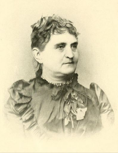 Harriet A. Brown